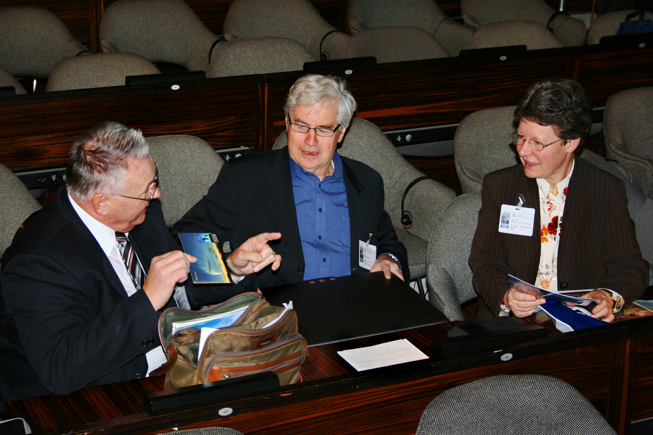 Launch of the International Year of Astronomy in Paris. Drahomír Chochol, chairman of the Slovak National Node, Jiří Grygar, chairman of the Czech National Node and Jocelyn Bell Burnell, first pulsar discoverer, from the left.